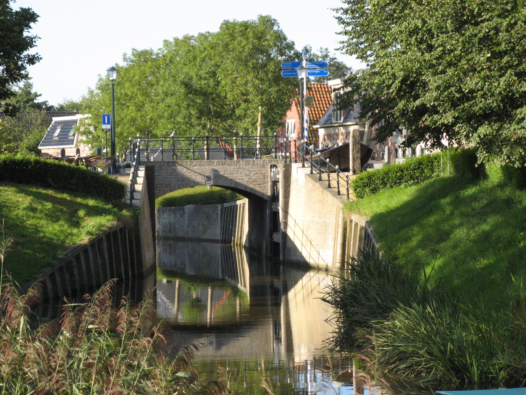 Old lock in former sea dike in the village Oudebildtzijl